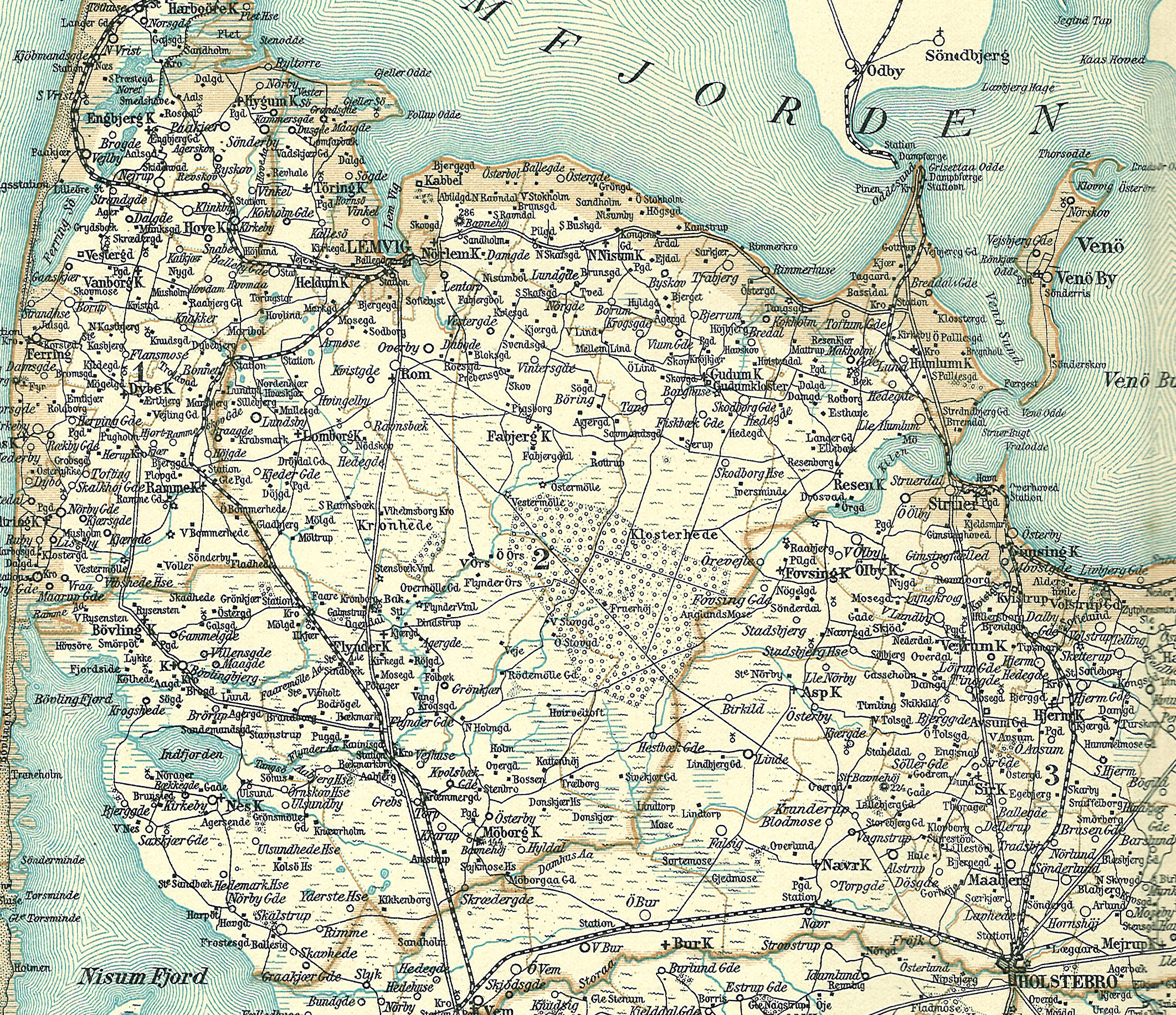 Map of Skodborg Herred in the northern part of Ringkøbing County in Denmark